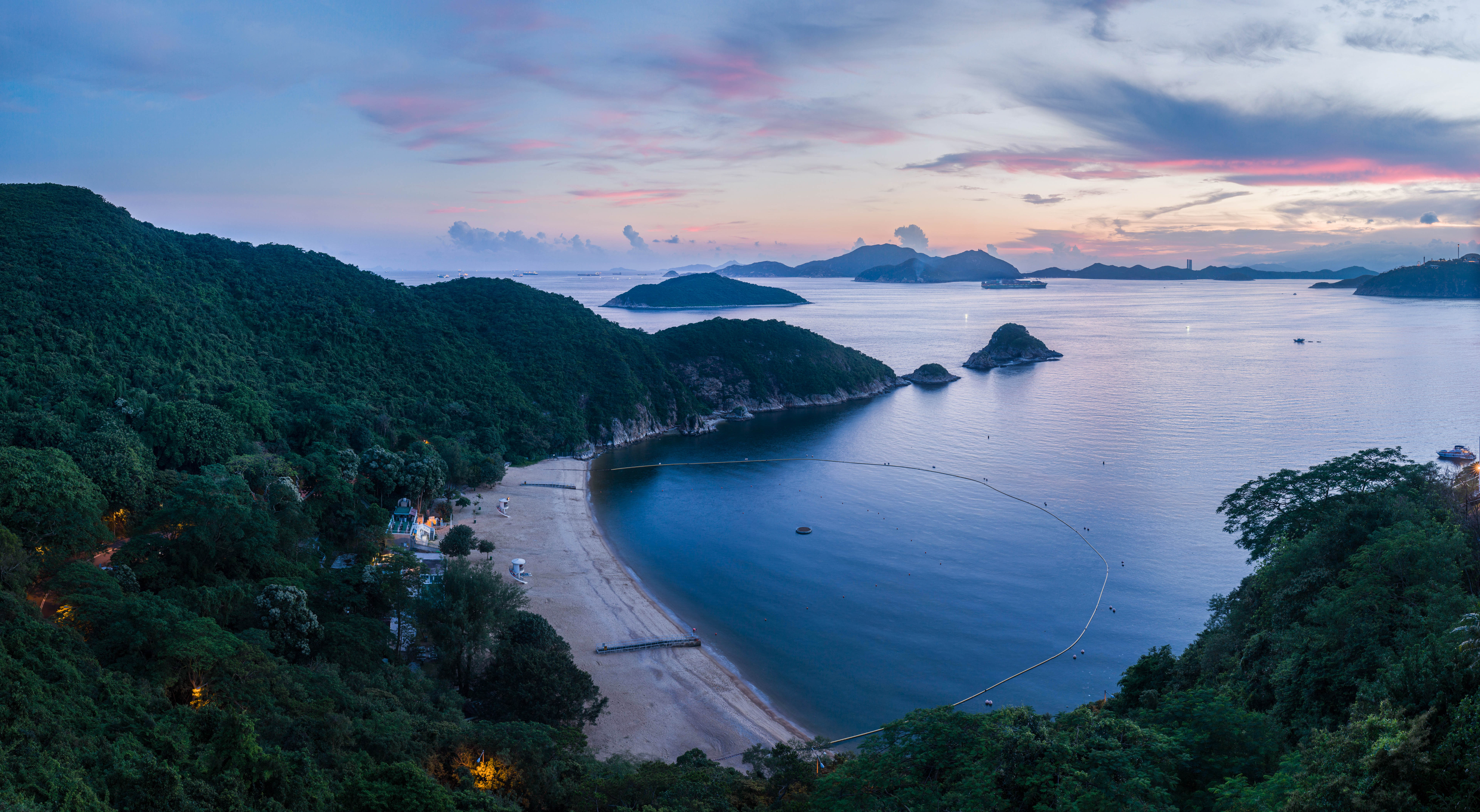 South Bay Beach on Hong Kong Island, Hong Kong. Viewed looking south-west. In the distance are Round Island (small island near the bay) and Lamma Island in the background is Lamma Power Station.